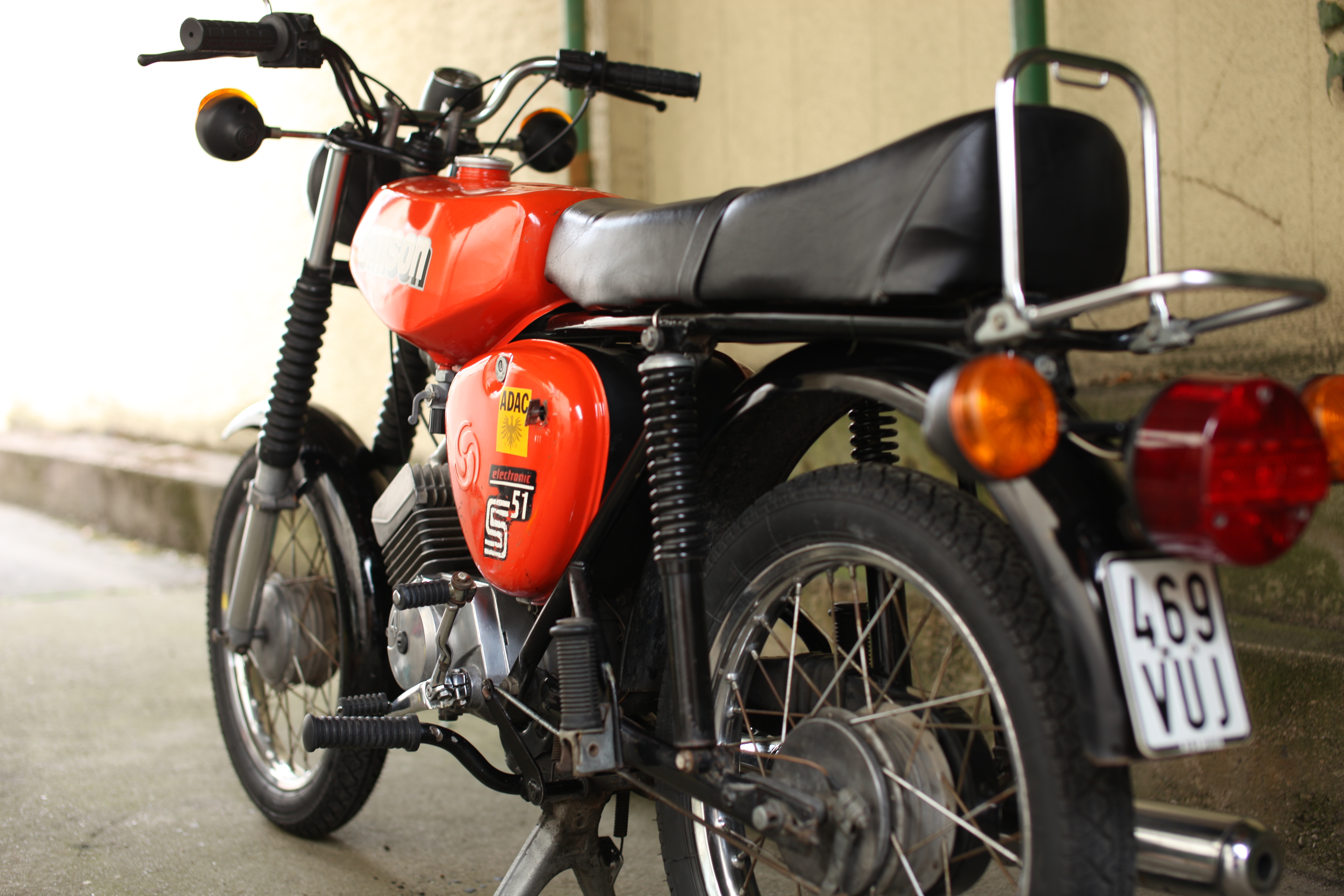 Simson S51 B2-4/1; build 1982; red color; unmodified except black mudguard color